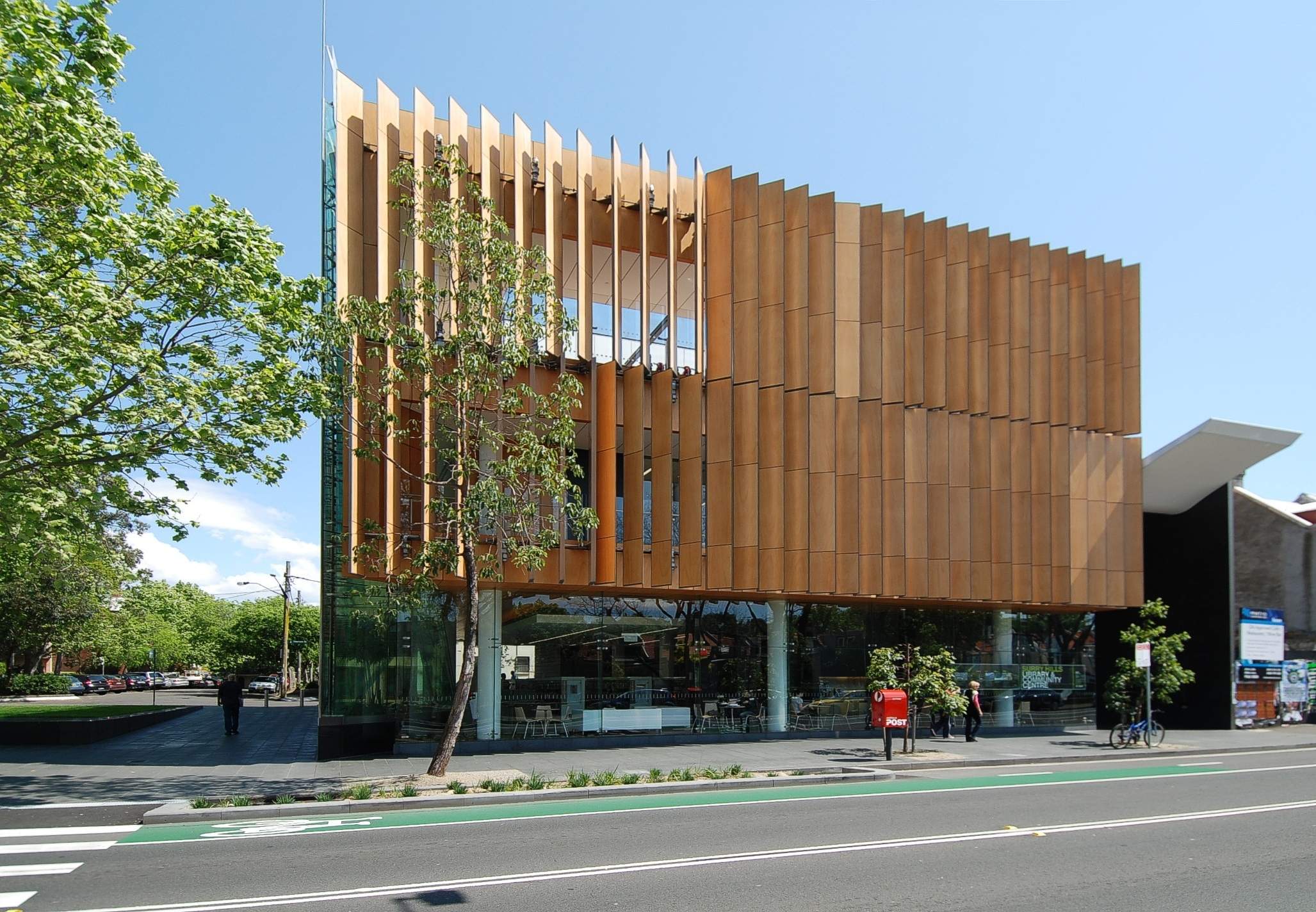 Surry Hills Library and Community Centre, Sydney, Australia. Design by FJMT.